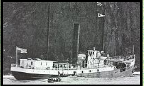 The United States Lighthouse Service lighthouse tender USHLT Armeria sometime after she was wrecked on either 15 or 20 May 1912 on an uncharted submerged rock off the south-central coast of the Territory of Alaska, either off the southern tip of Montague Island or off Cape Hinchinbrook Light near the southern end of Hinchinbrook Island. She flies the United States flag upside down as a distress signal.